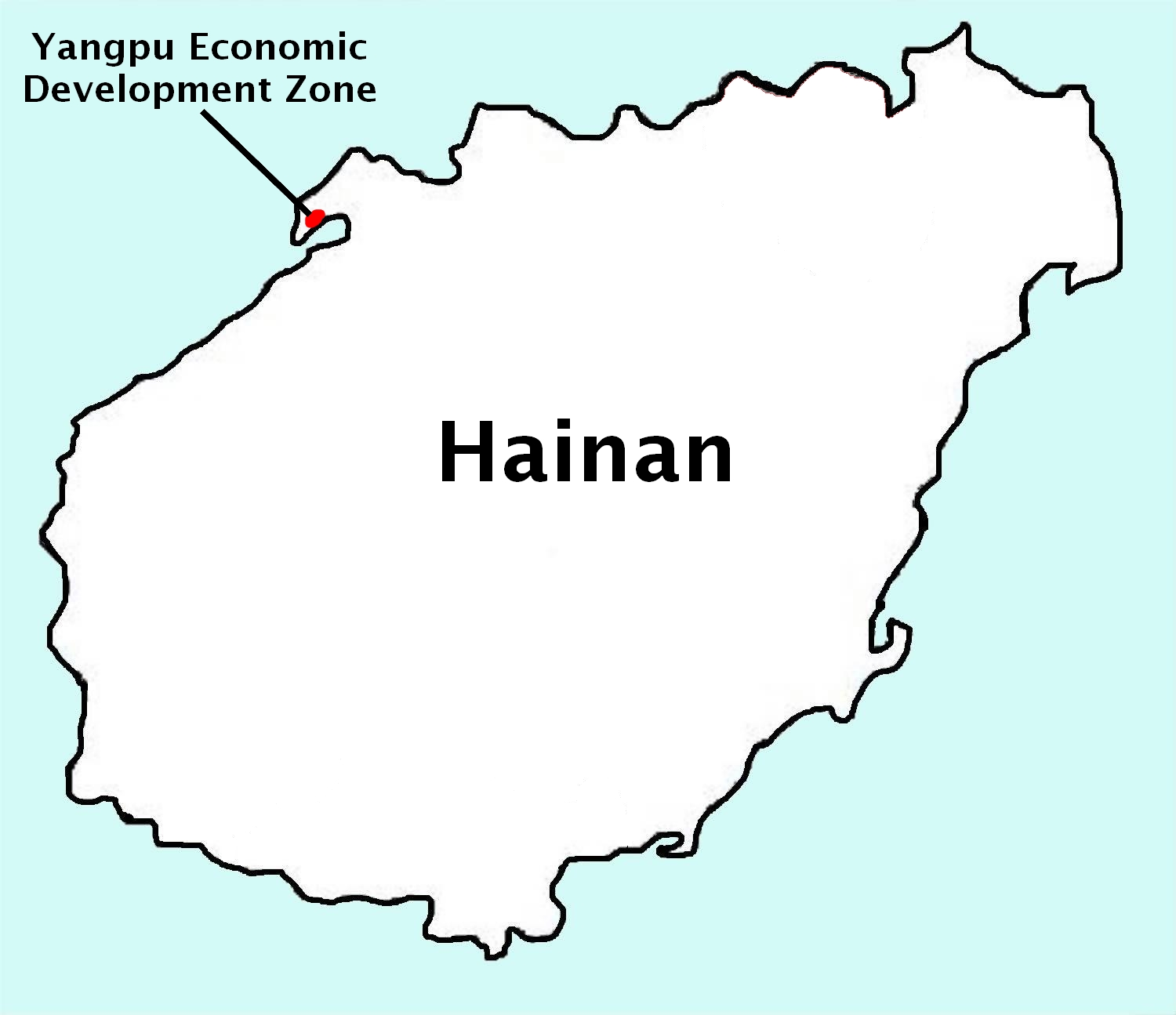 Map showing location of Yangpu Economic Development Zone on Yangpu Peninsula, Hainan Province, China.